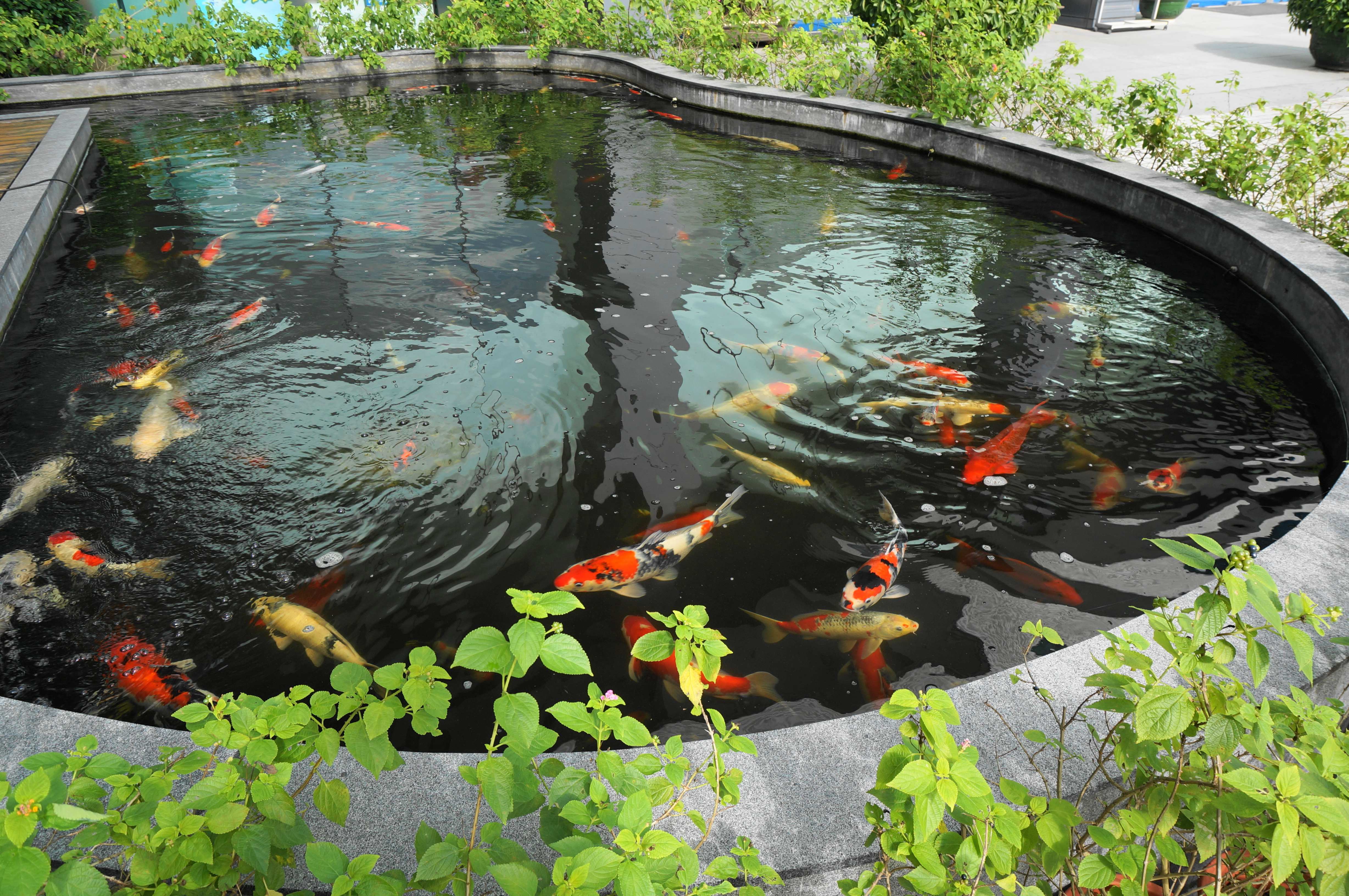 A Koi Pond in front of MUST library